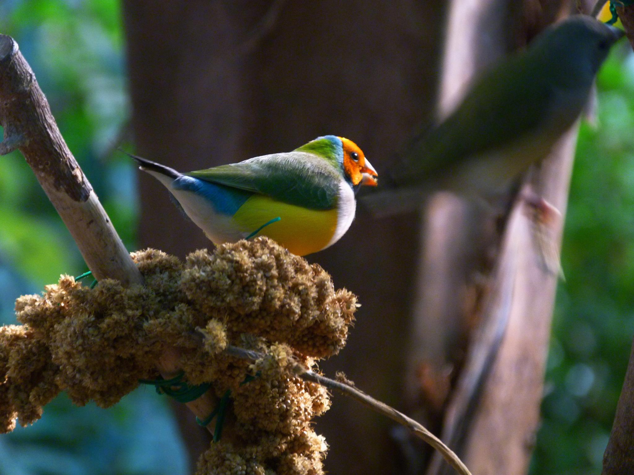 A Gouldian Finch at Magic Wings Butterfly Conservatory, South Deerfield, Massachusetts, USA.